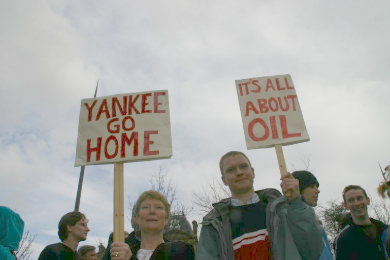 Liverpool demonstrators stop the war coalition published photos on blog for purposes of publicity, re-distrubution allowed